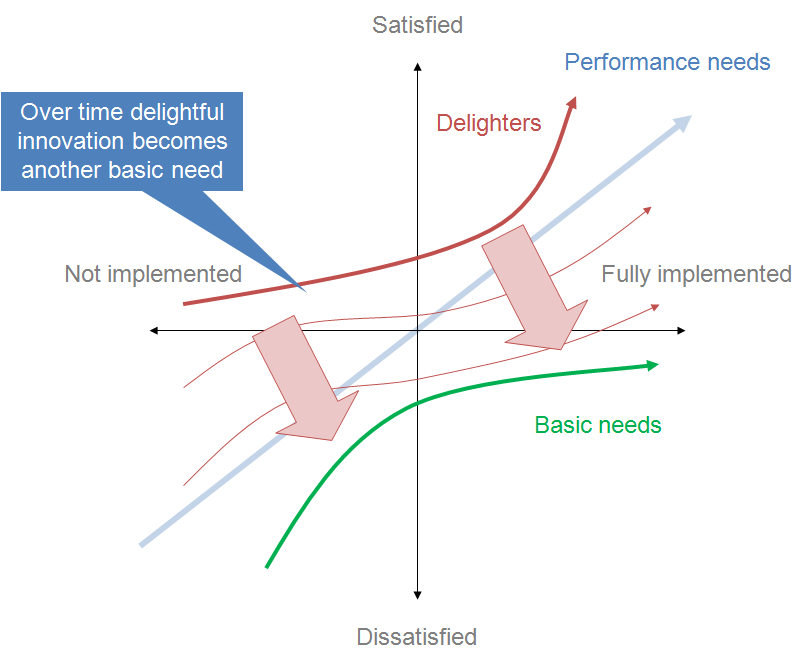 Description of how attributes values change over time in the Kano model